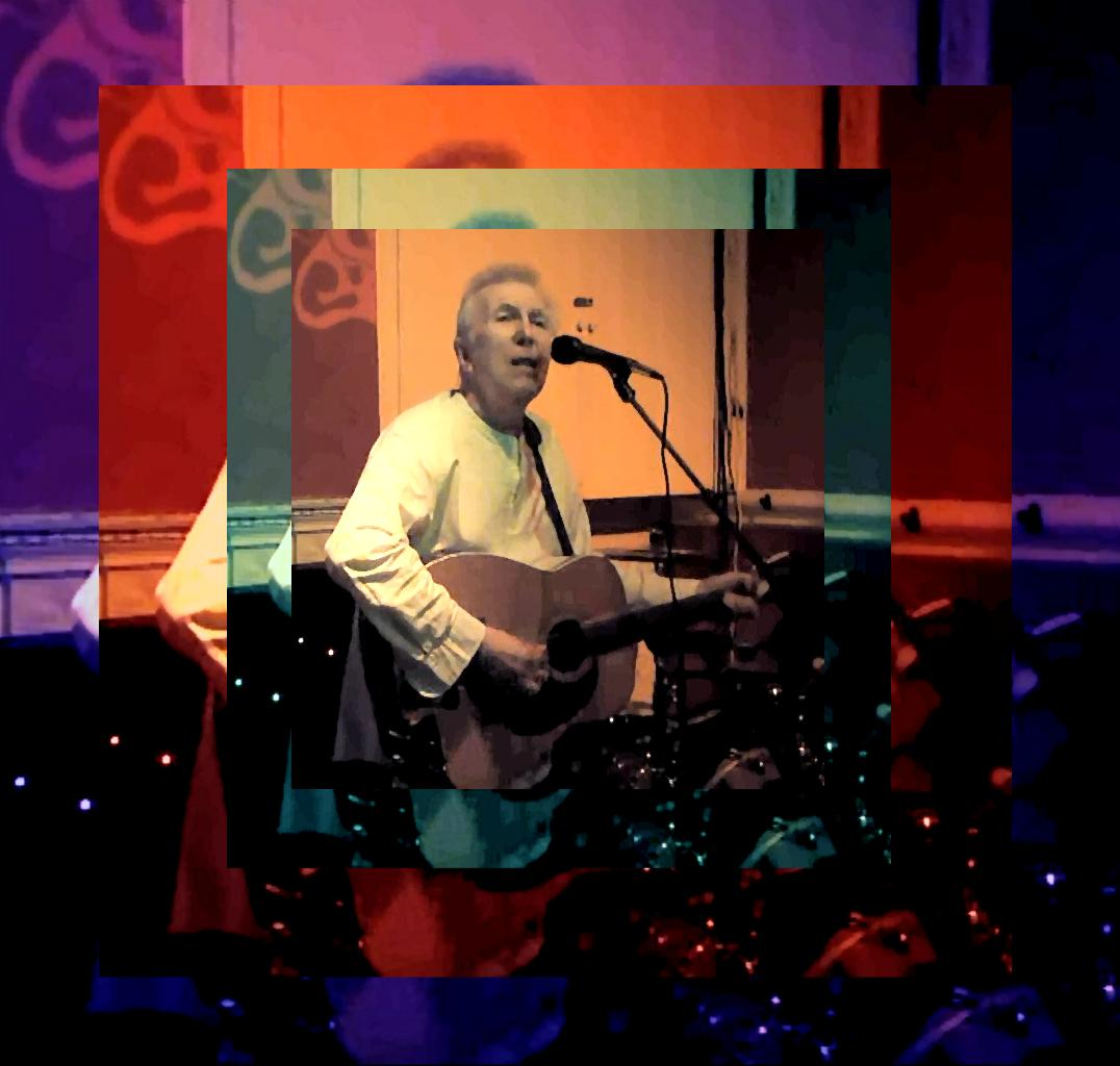 Taken during a live gig in Lichfield, Staffordshire, UK - 14th April 2012. Beau Other information I have modified/edited the image at a later stage